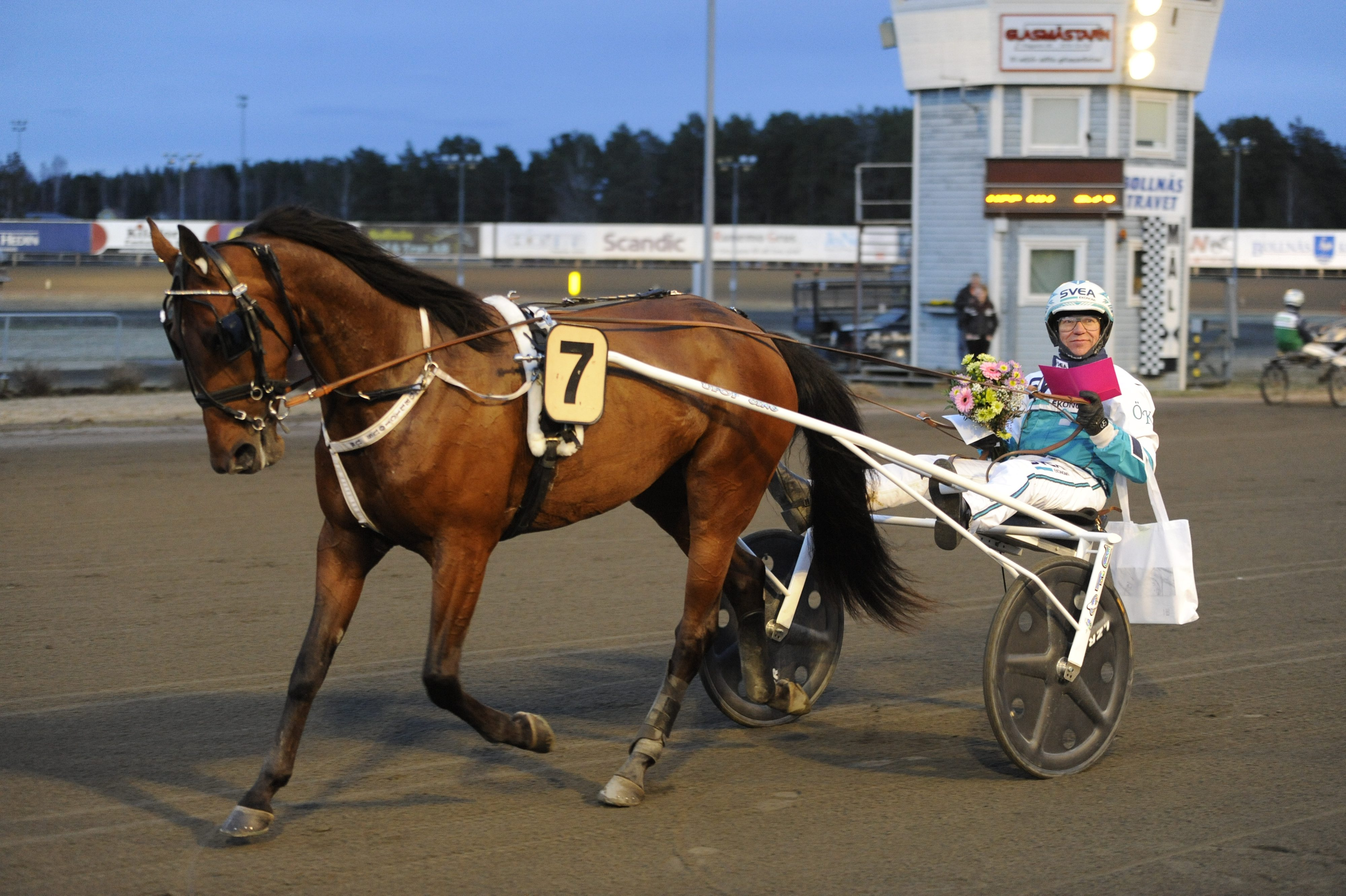 Delicious U.S. and driver Örjan Kihlström at Bollnäs 2016.